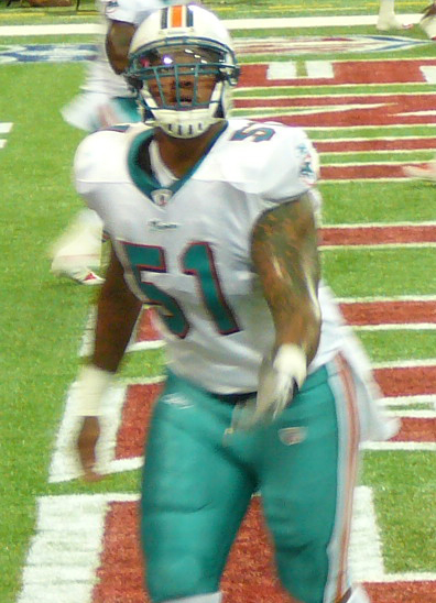 If used somewhere other than Wikipedia, Nelson, by name.